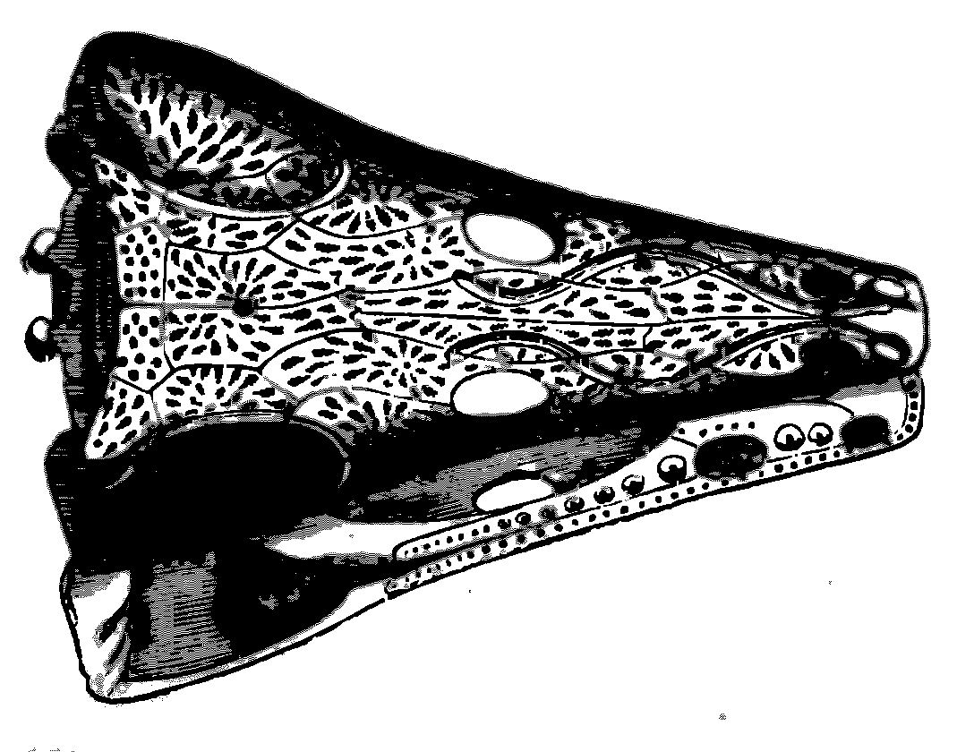 Scull of Trematosaurus brauni